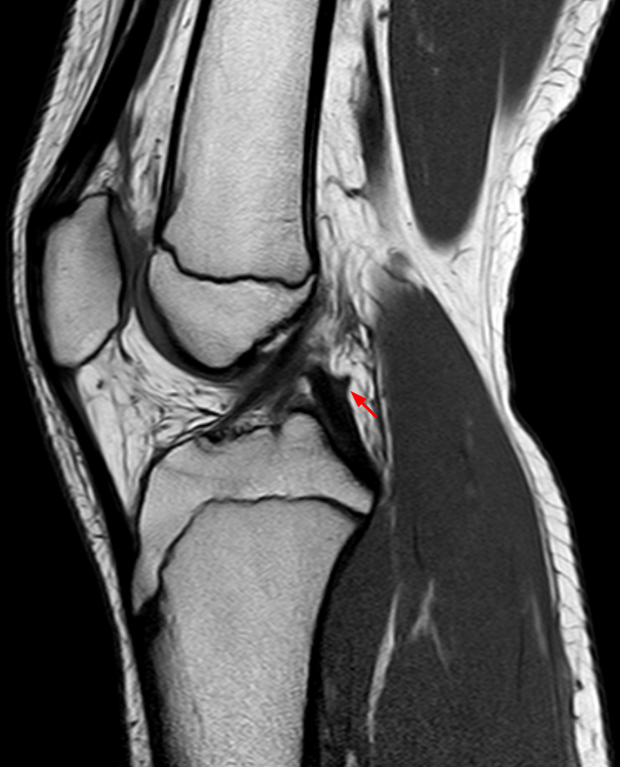 Ligamentum meniscofemorale posterius in MRI sagittal view.